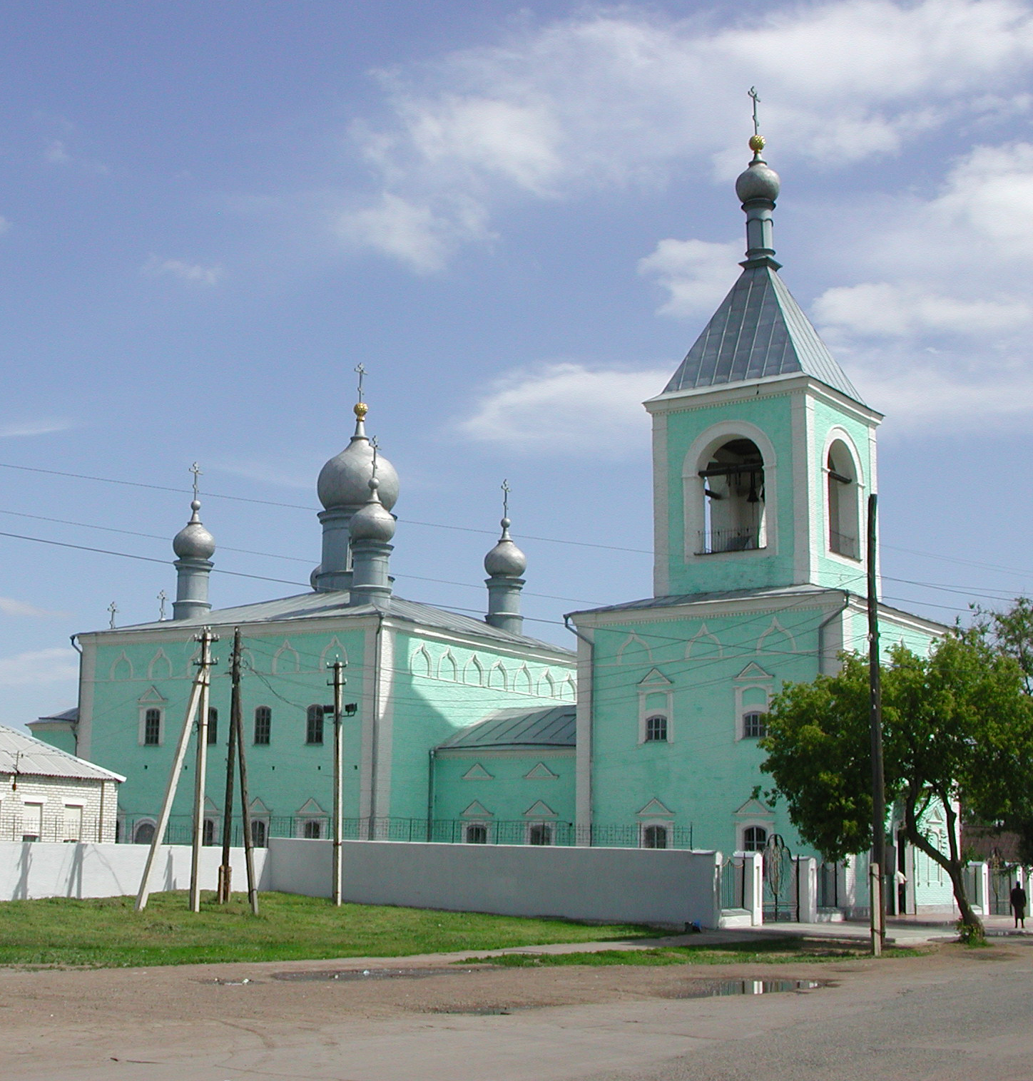 Cathedral of the Archangel in Uralsk